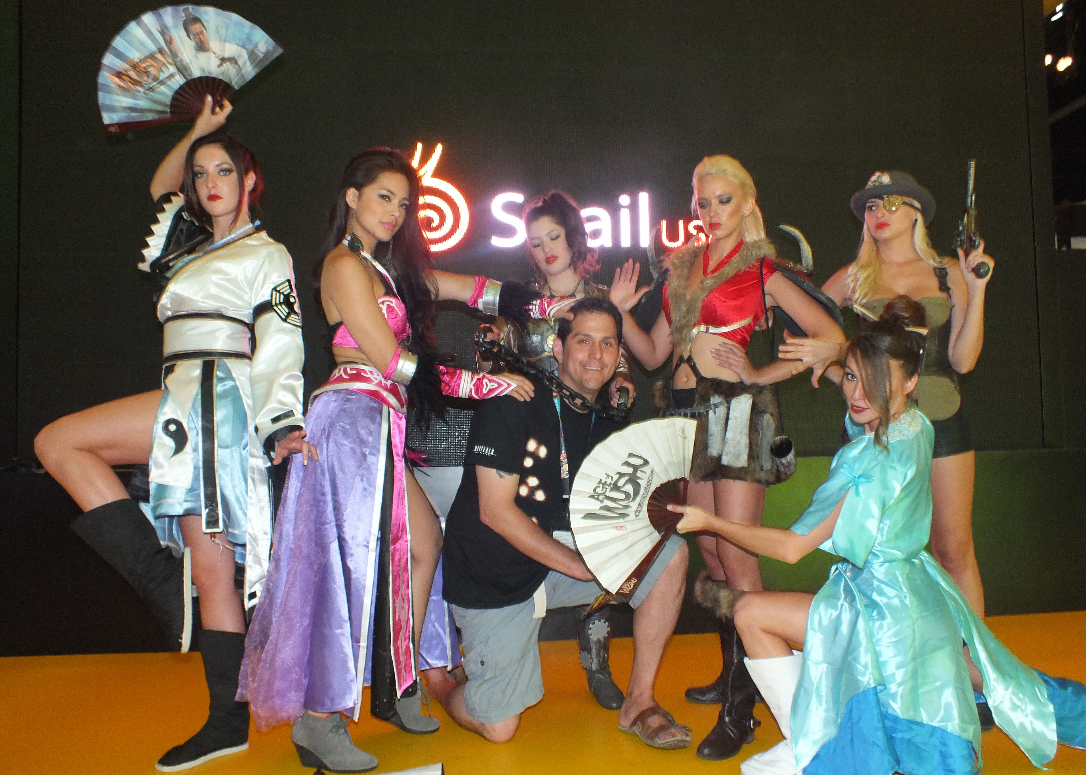 Taken on June 12, 2013 Dowtown Carrier Annex, Los Angeles, CA, US Fujifilm FinePix HS20EXR